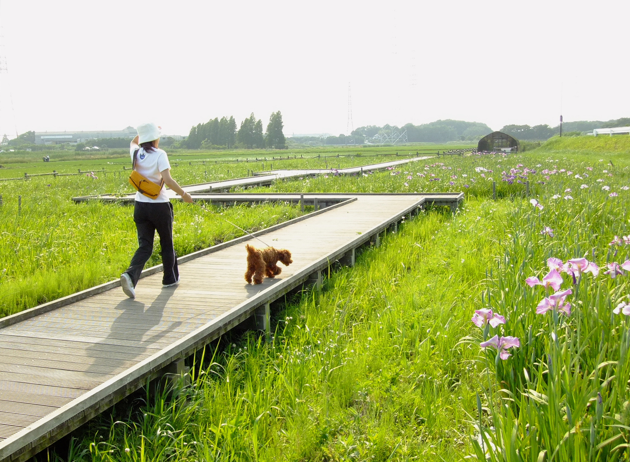 Uchimaki Park in June.